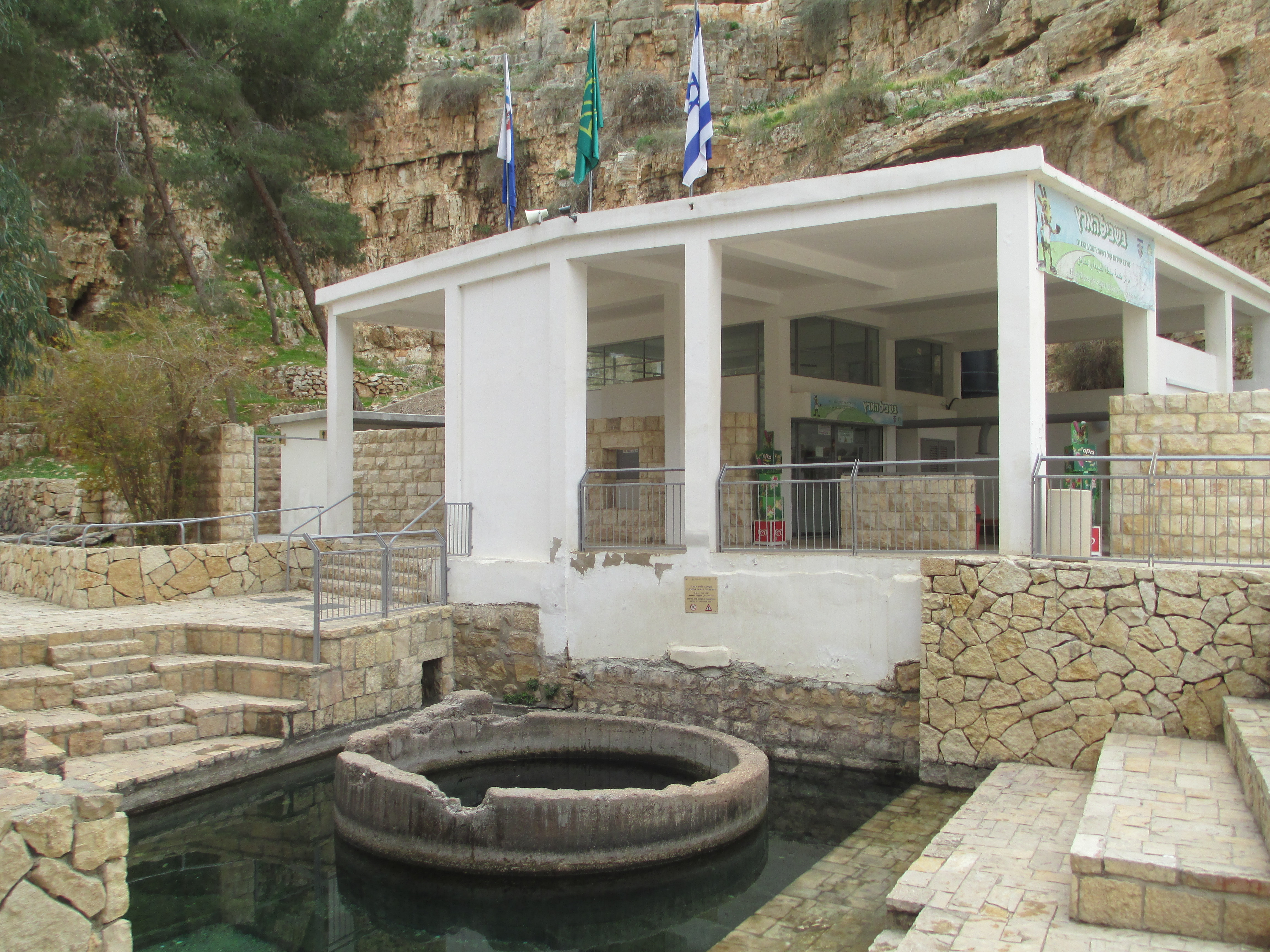 Ein Mabo'a in Wadi Qelt